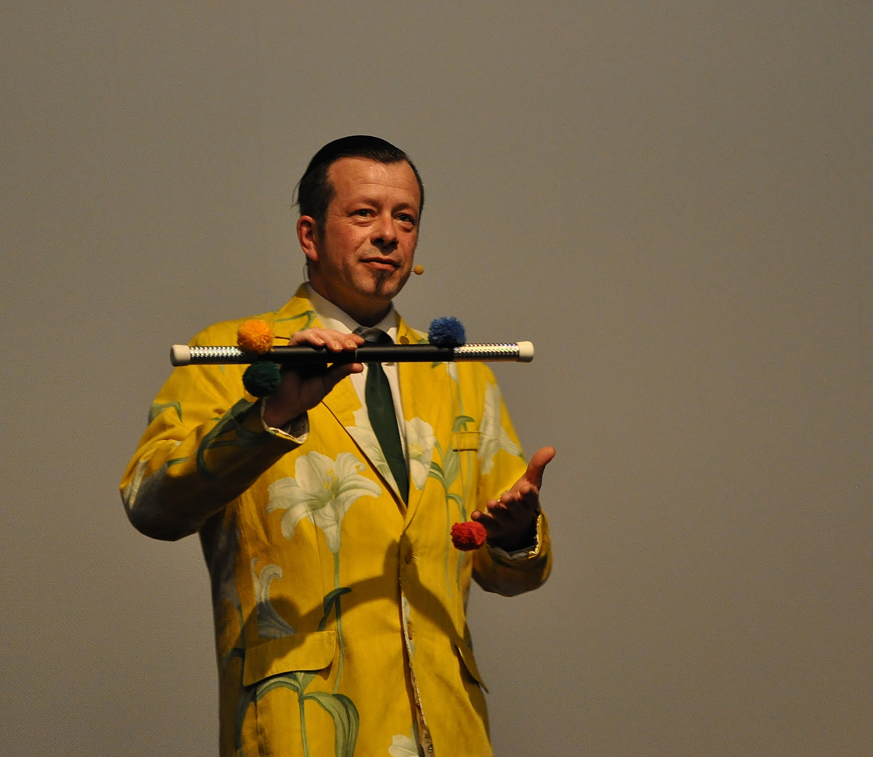 Harald Leander talks about "life on a stick" at the Grand Simrishamn March 15, 2012.